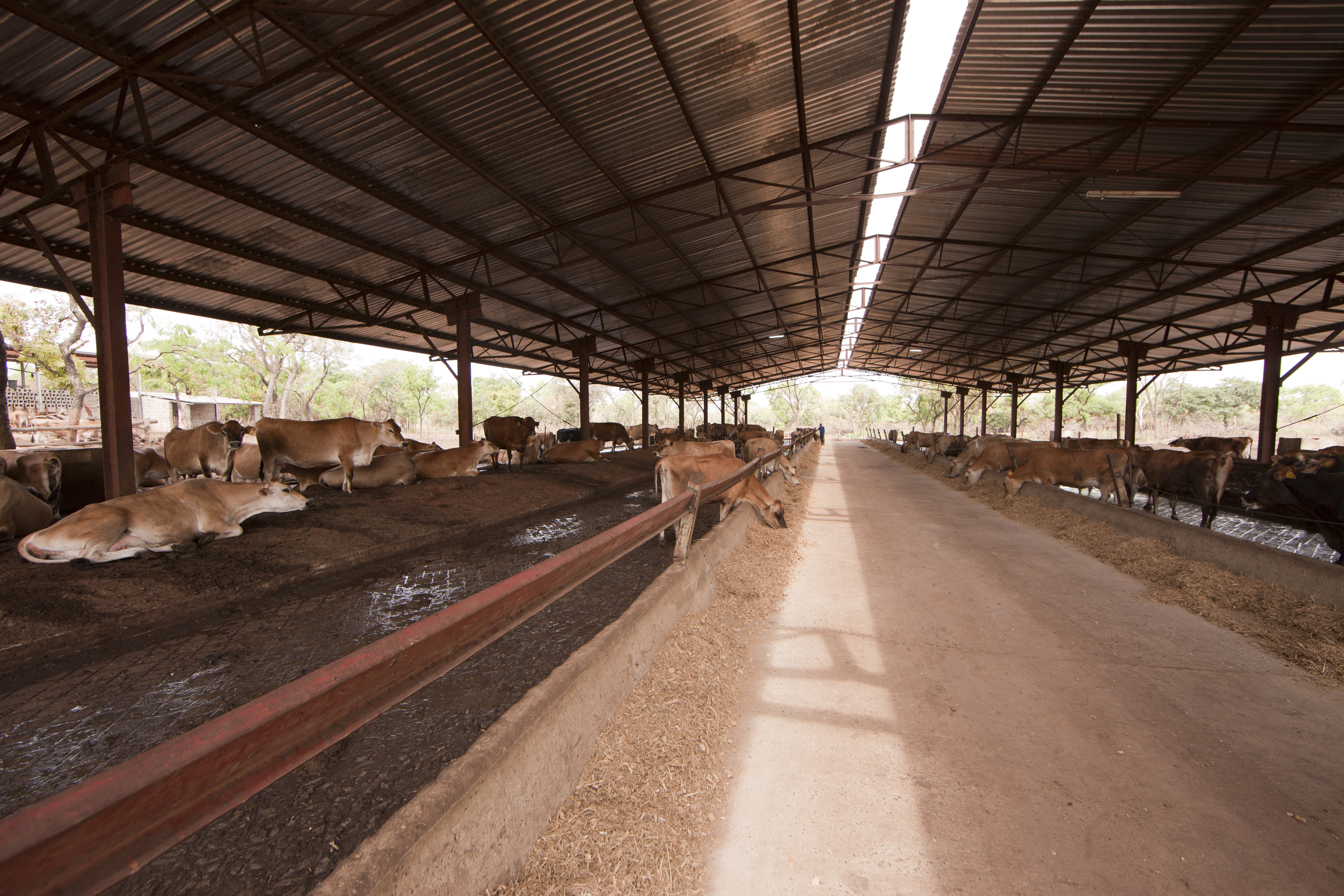 Imported jersey cattle at the diary farm